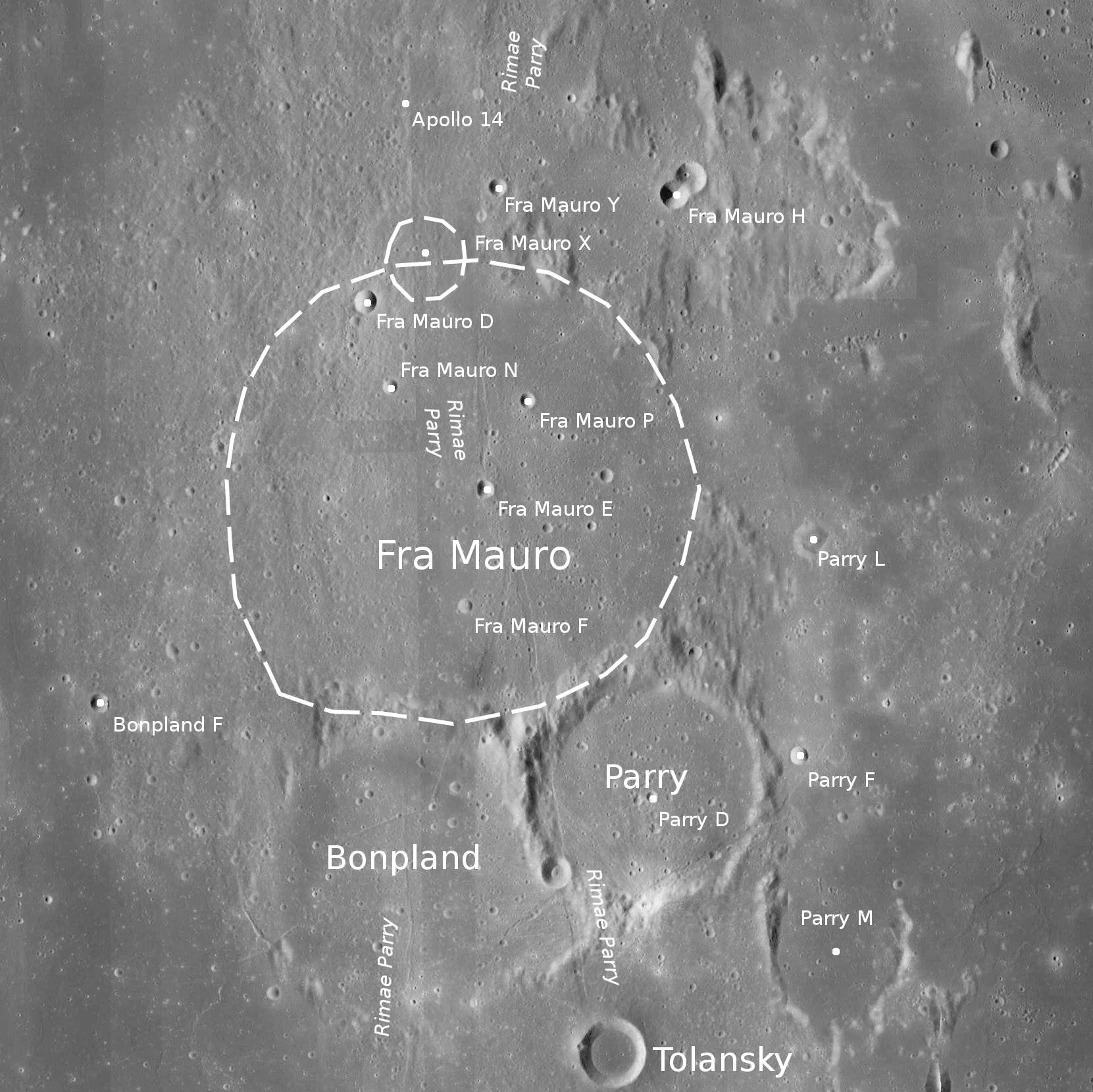 Craters Fra Mauro, Bonpland and Parry (detail of LRO - WAC global moon mosaic; Mercator projection)